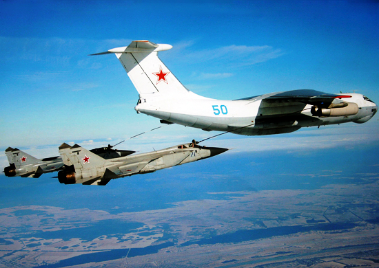 The MiG-31 carry out aerial refueling.